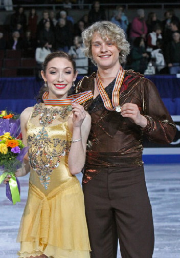 Meryl Davis & Charlie White (USA) during the ice dancing medals ceremony at the 2009 Four Continents Championships. They won the gold medal at this event.